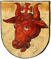 Arms of Bulgaria (House of Terter), by Codex 391, Bavarian State Library (16th century).